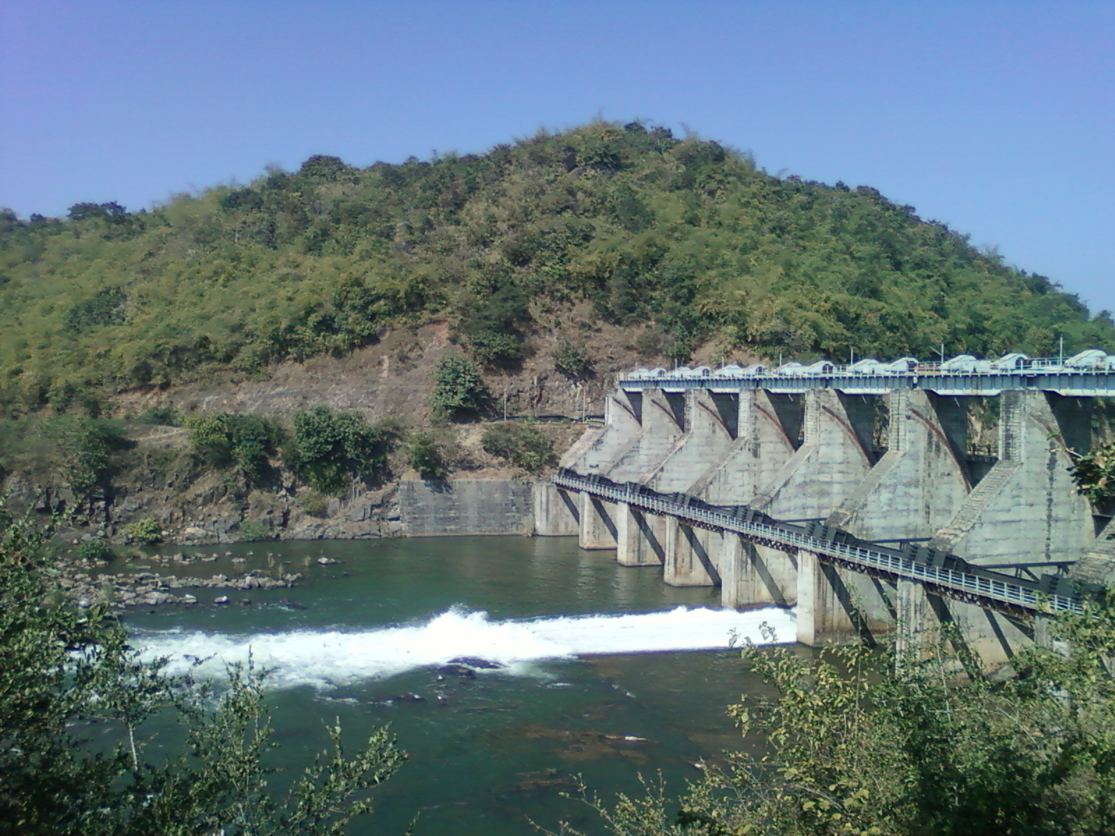 View of Yeleru Dam at Yeleswaram in East Godavari District of Andhra Pradesh